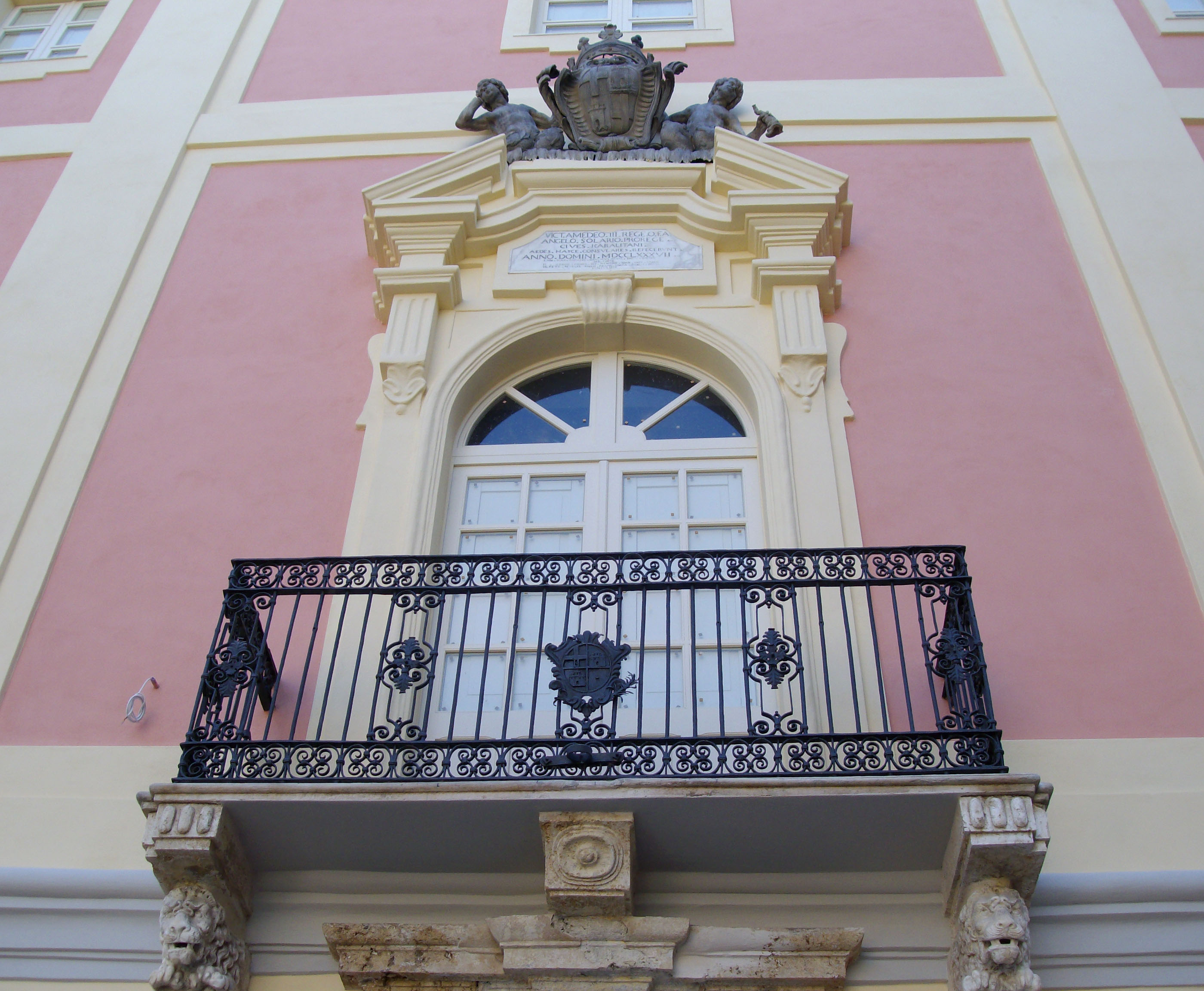 Balcony in the ancient town hall of Cagliari